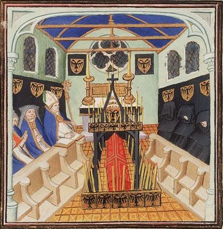 Vincent of Beauvais, Le Miroir Historial (Vol. IV). Translation from the Latin by Jean de Vignay Place of origin, date: Paris, Master of the Cité des Dames (illuminator); c. 1400-1410 Material: Vellum, ff. 401, 425x320 (254x196) mm, 43 lines, littera cursiva, Binding: 18th-century brown leather; gilt; with coat of arms of Stadholder William V Decoration: 1 two-column miniature (185x200 mm); 19 column miniatures (110/70x90/85 mm); decorated initials with border decoration (ff. 3r, 10r, 15r, 19r, 20r, etc.) Added: 1 illustration in the margin (coat of arms) Provenance: acquired before 1492 by Philip of Cleves (d. 1528; coat of arms with label; signature); purchased in 1531 from his estate by Henri III, Count of Nassau (d. 1538); by descent to the Princes of Orange-Nassau, the later Stadholders, at The Hague; carried off in 1795 toParis by the French and restituted to the KB in 1816 Annotation: Vol. I-III (now: Paris, Bibliothèque Nationale de France, fr. 308-311) were decorated but not illustrated in the early 15th century. Apparently separated from their fourth volume from the beginning, they were illustrated on behalf of a later owner, Louis de Gruuthuse,in the early 1450s